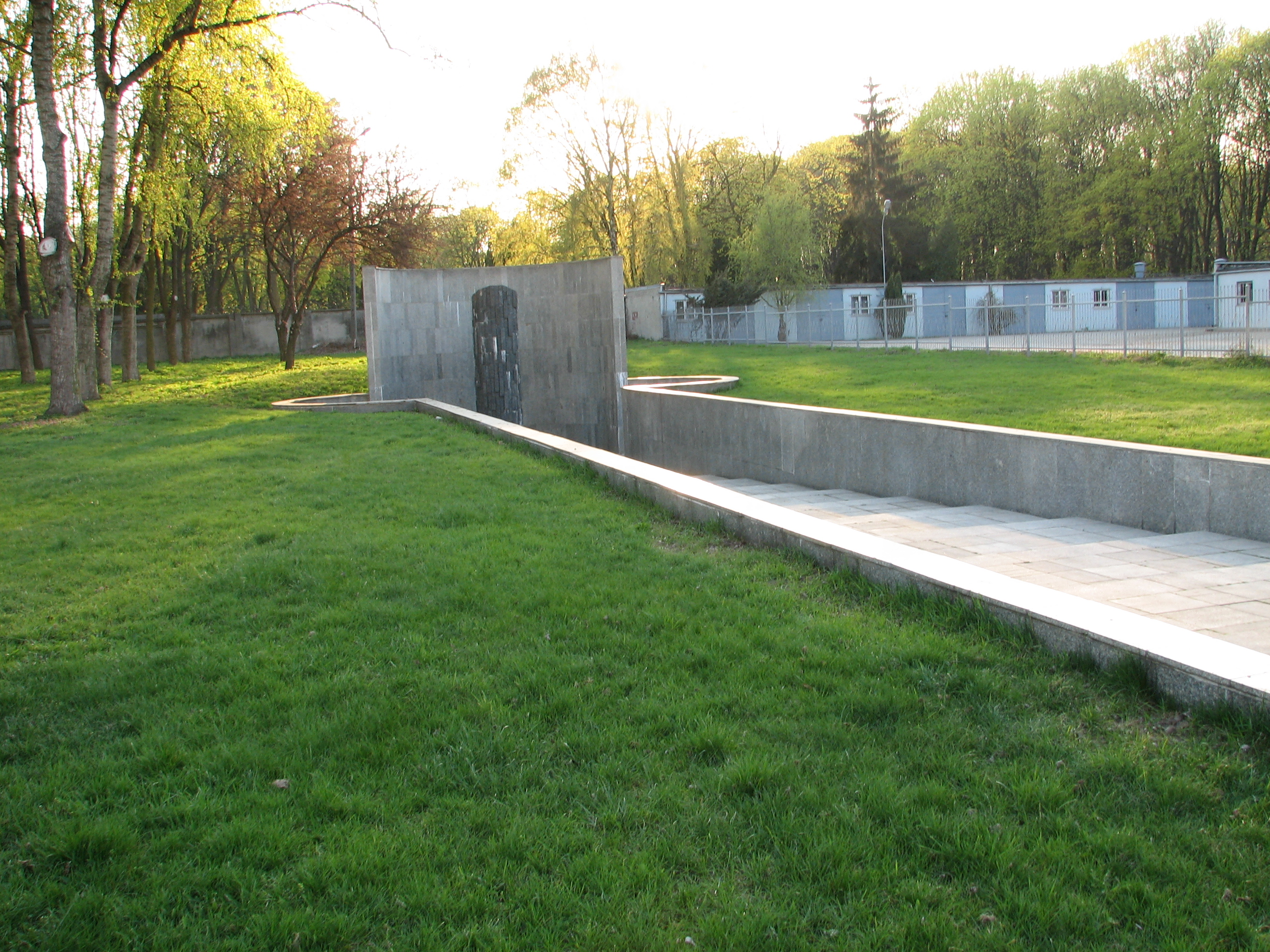 Monument of Jews and Poles Common Martyrdom in Warsaw, Gibalskiego street 21